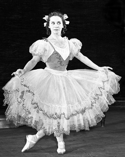 “O. Lepeshinskaya, A. Radunsky, and I. Vasilieva in scene from Leo Delibes' ballet "Coppelia"”. Olga Lepeshinskaya (Swanilda), Alexander Radunsky (Coppelius) and I. Vasilieva (Spaniard Doll), in a scene from Leo Delibes' ballet "Coppelia." The State Academic Bolshoi Theatre.